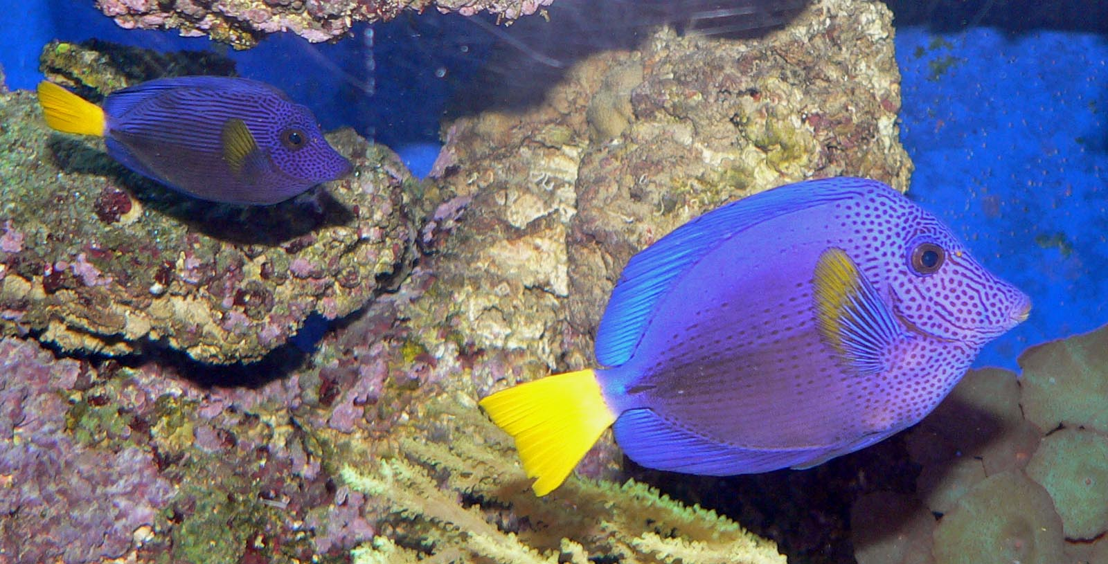 Photo of Zebrasoma xanthurum (yellowtail tang) at the Steinhart Aquarium in San Francisco